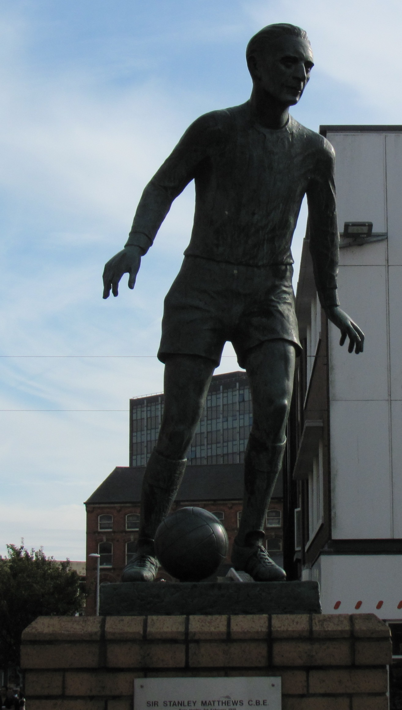 Statue of Stanley Matthews by Colin Melbourne in Hanley town centre.